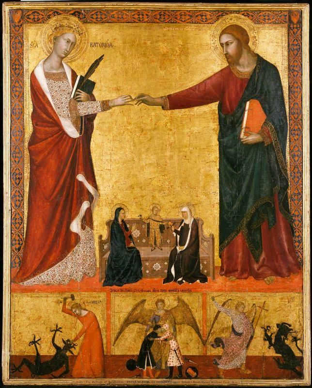 below the infant Jesus, Mary & St Anne. St Catherine here is Saint Catherine of Alexandria, not Saint Catherine of Siena